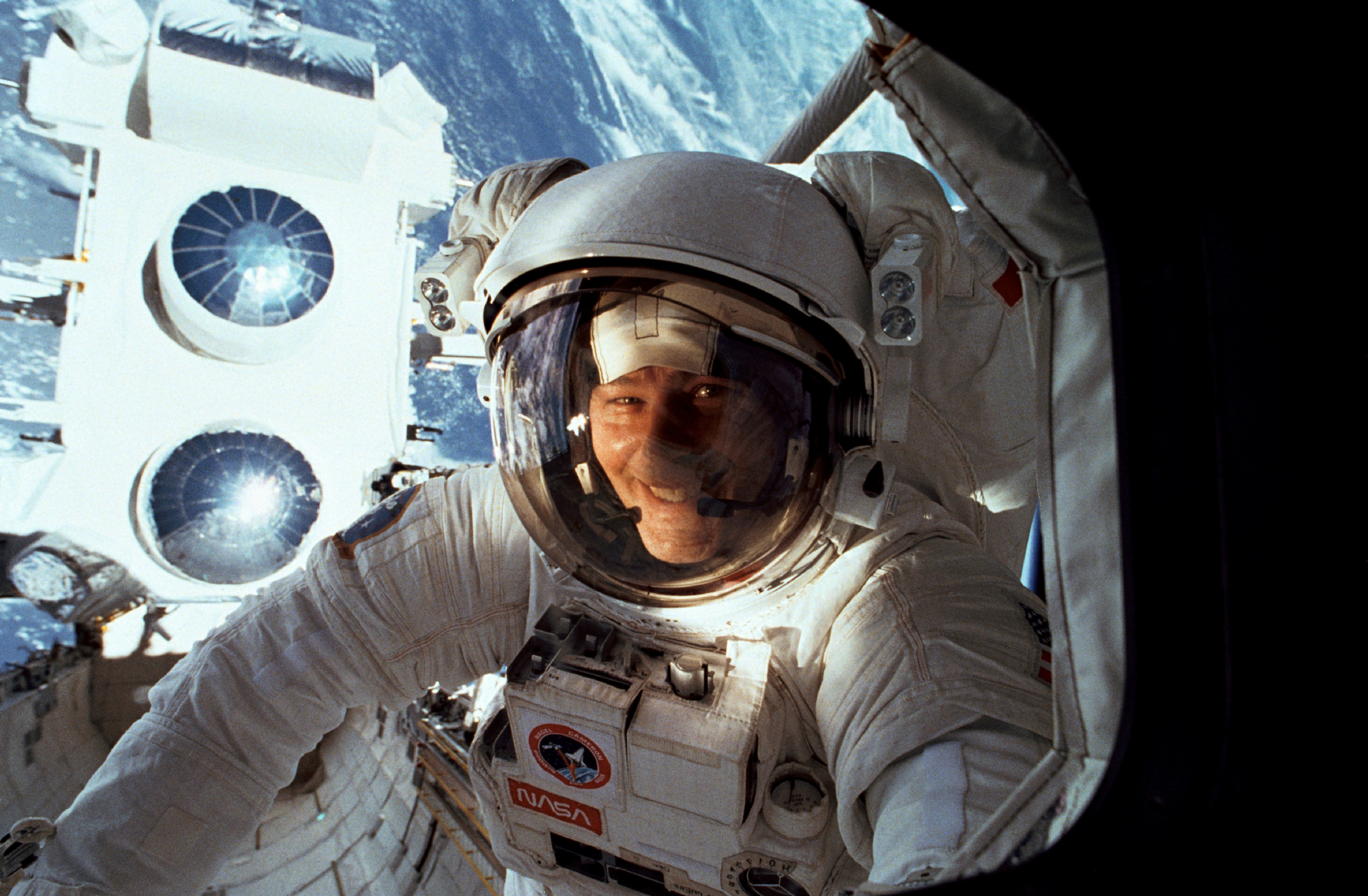 Jerry Ross looks into the aft flight deck windows of Atlantis after successfully freeing a stuck antenna on the Compton Gamma Ray Observatory visible in the background, STS-37.